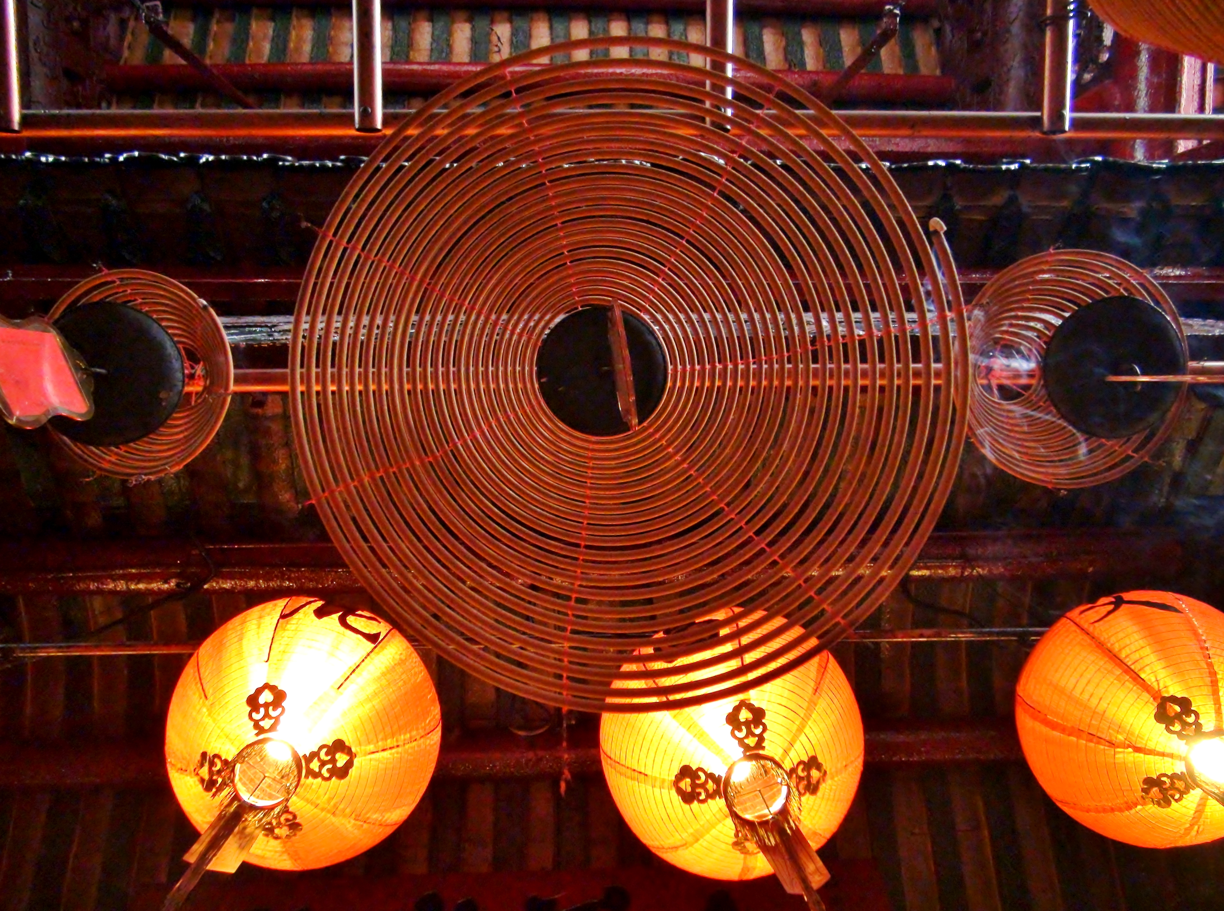 Spiral incense in Man Mo Temple, Hollywood Road.